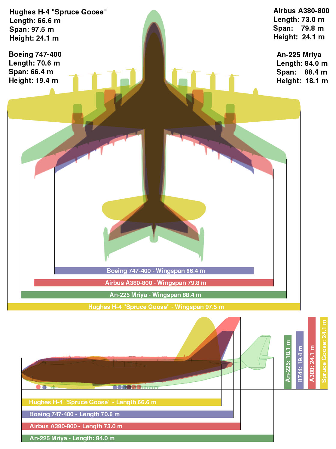 This diagram shows a top and side schematic size and shape comparison of the Hughes H-4 Hercules, Boeing 747-400, Airbus A380, and Antonov An-225.